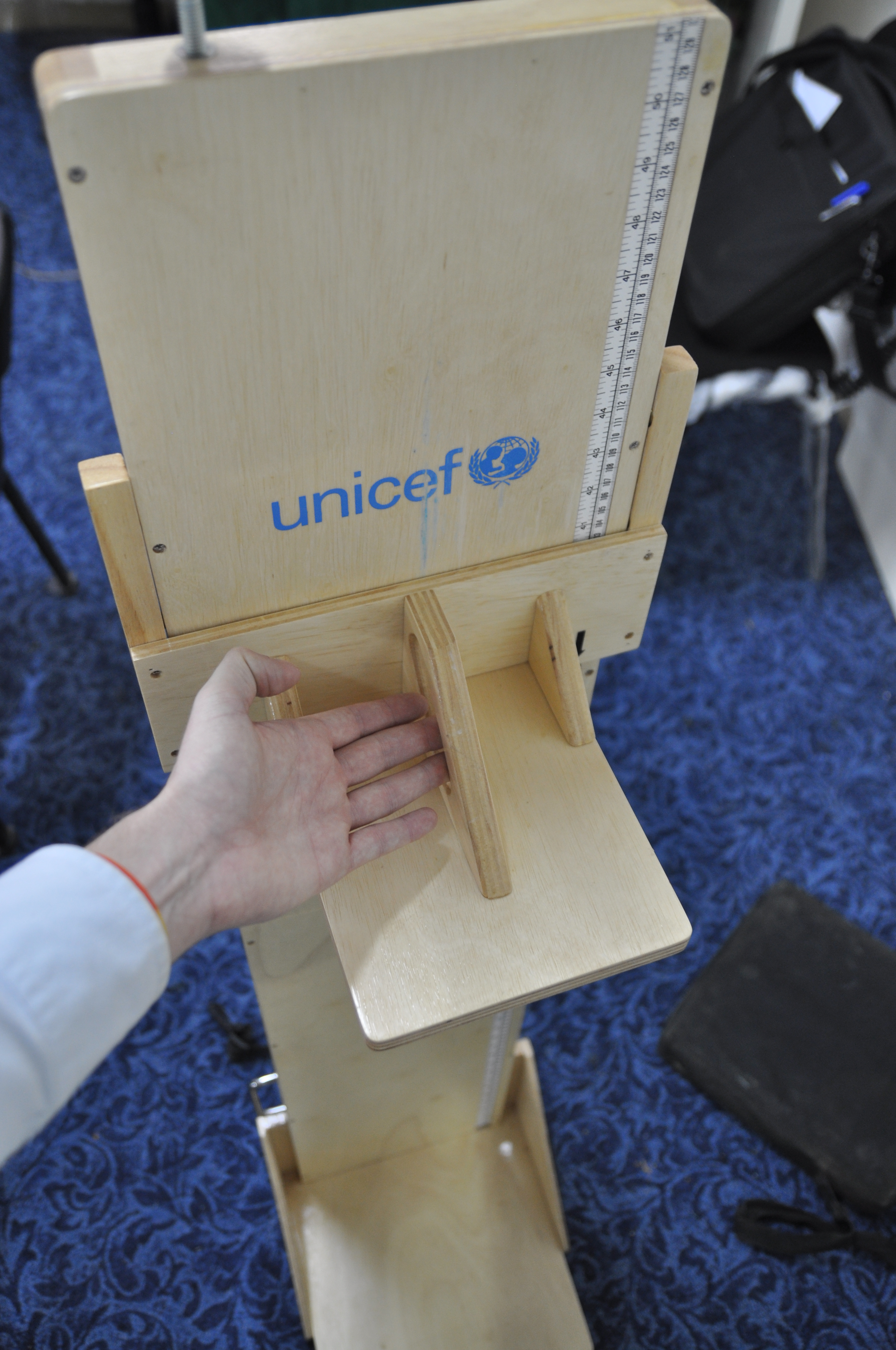 Portable UNICEF height gauge in Nouakchott (Mauritania)